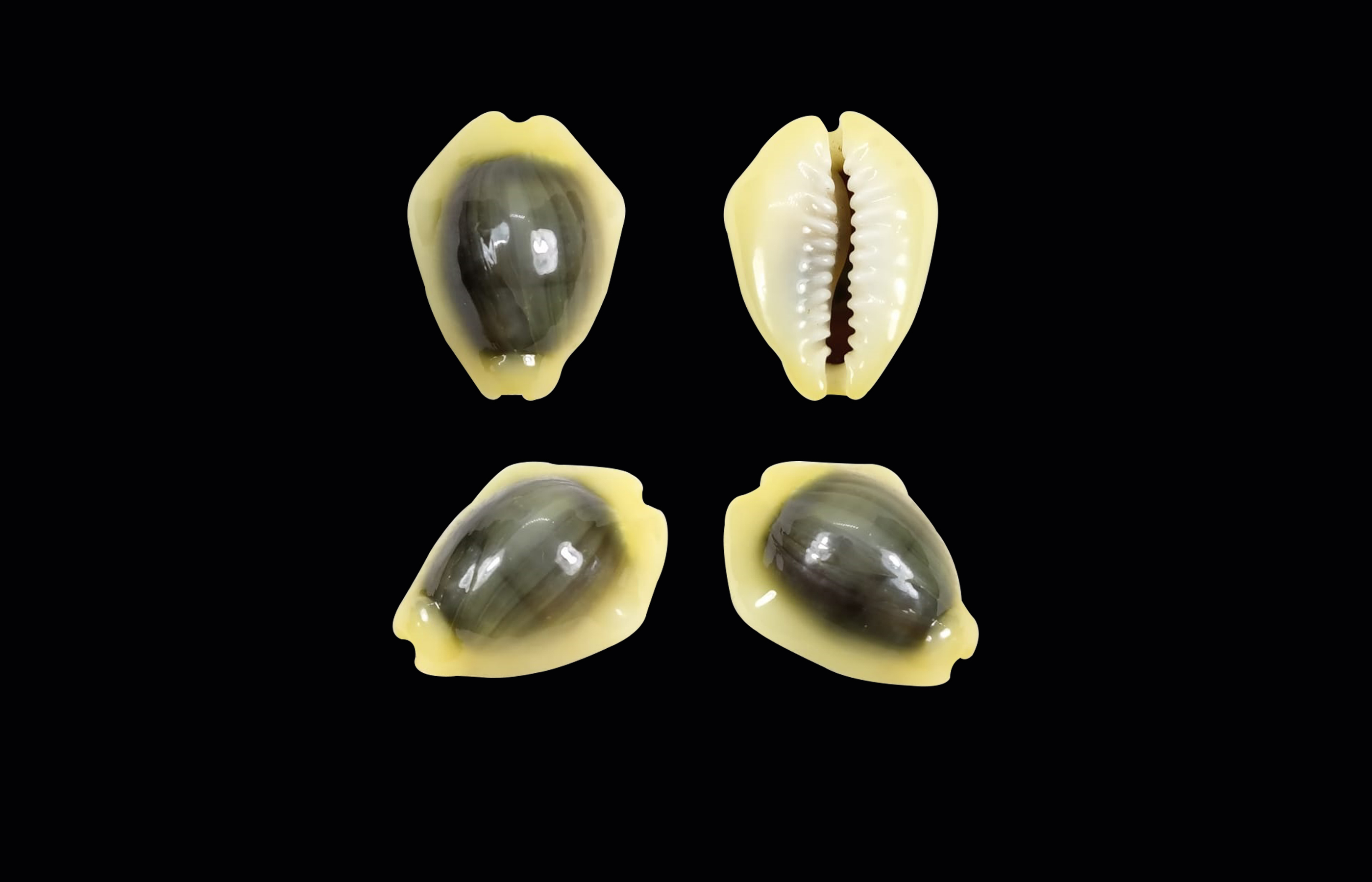 Monetaria Moneta Paravespula